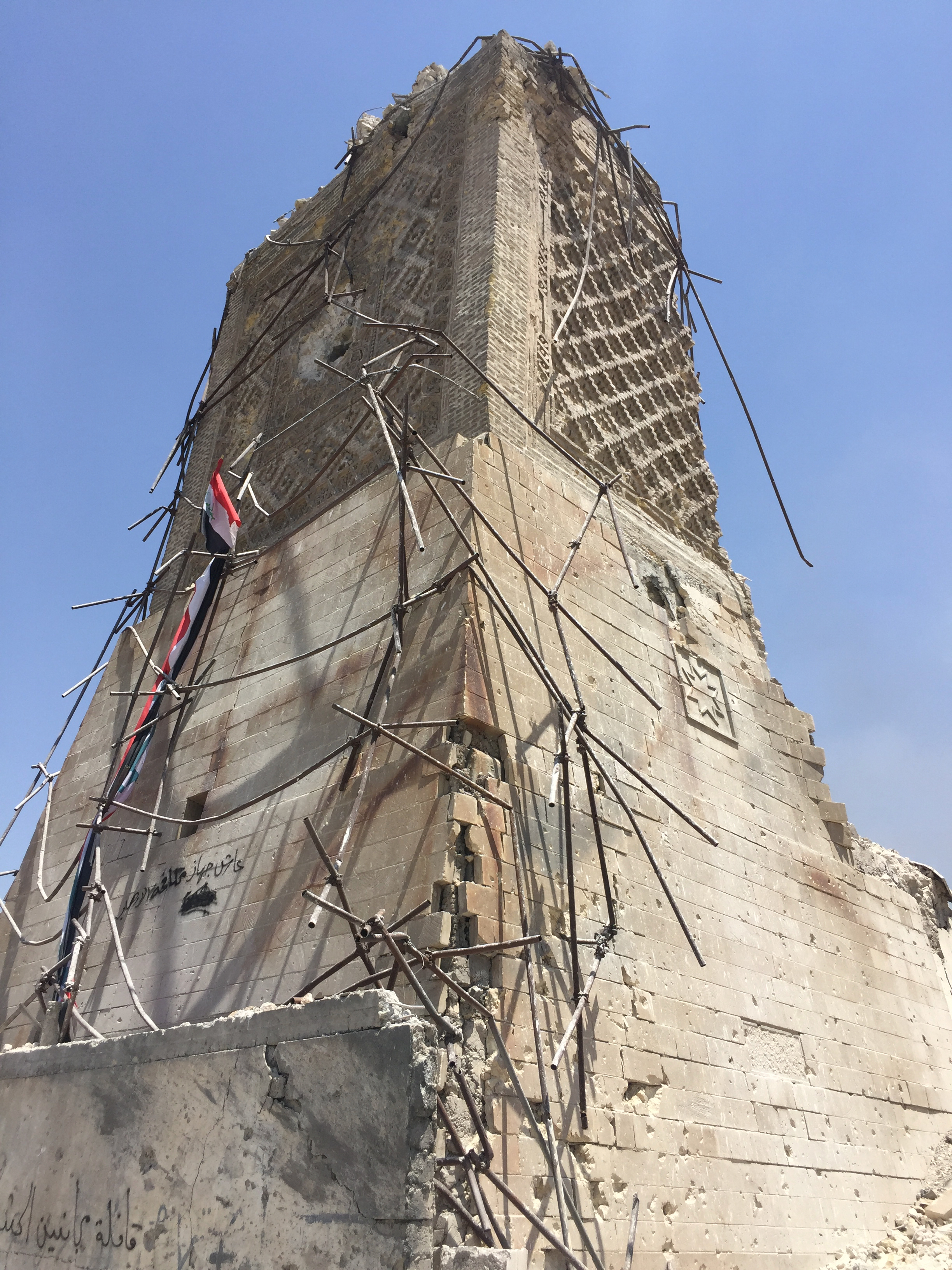 The remnant of the tilted minerate of the Great Alnuri Mosque after been destroyed by ISIS..